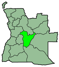 A map from province Bie, Angola